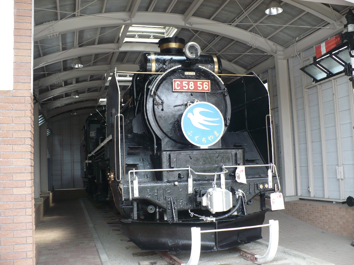 A preserved steam locomotive JNR type C58 at Fukuchiyama railway museum Poppoland, Fukuchiyama city Kyoto prefecture Japan